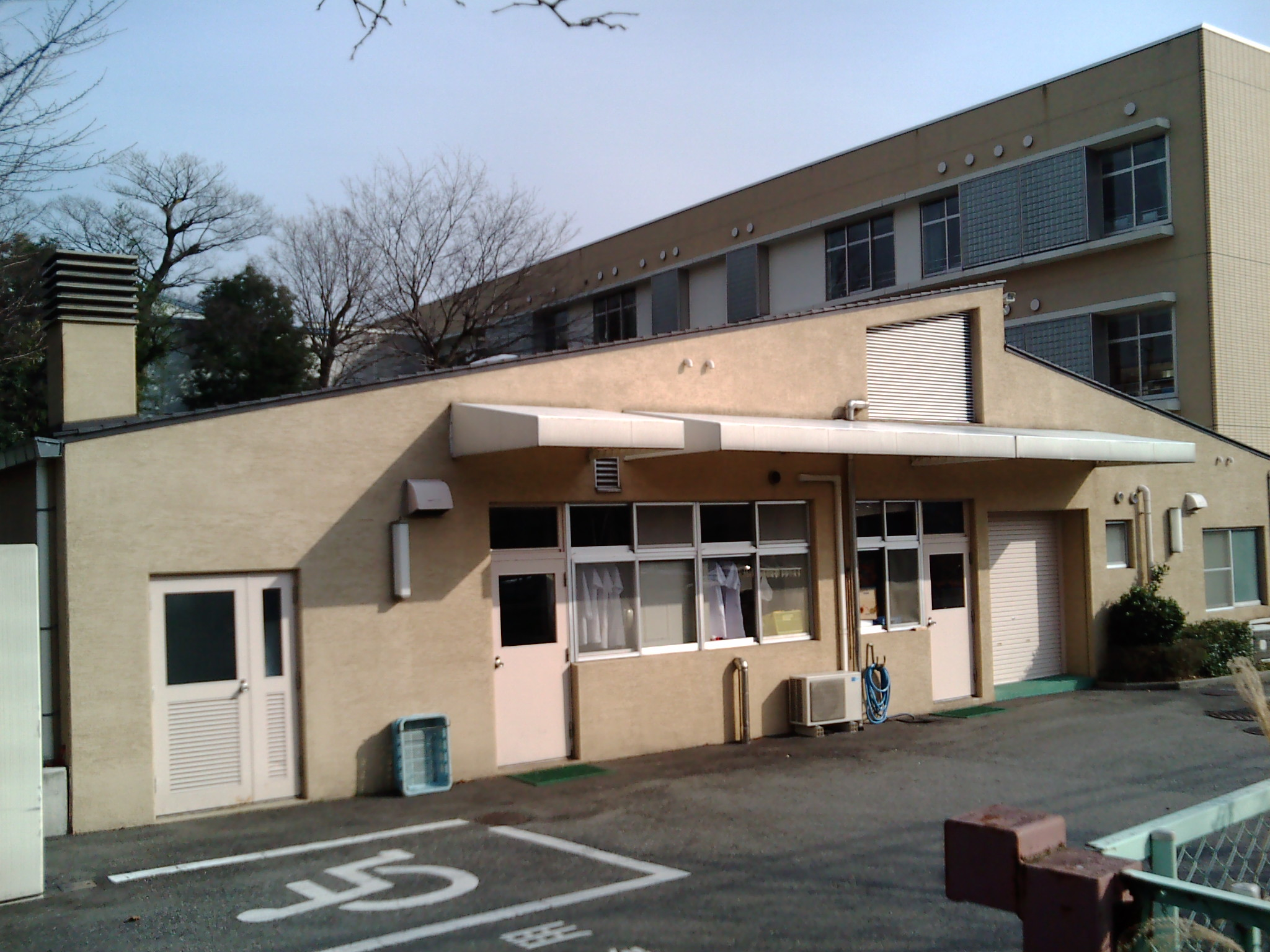 The School meal room building of Ashiya Iwazono Elementary School